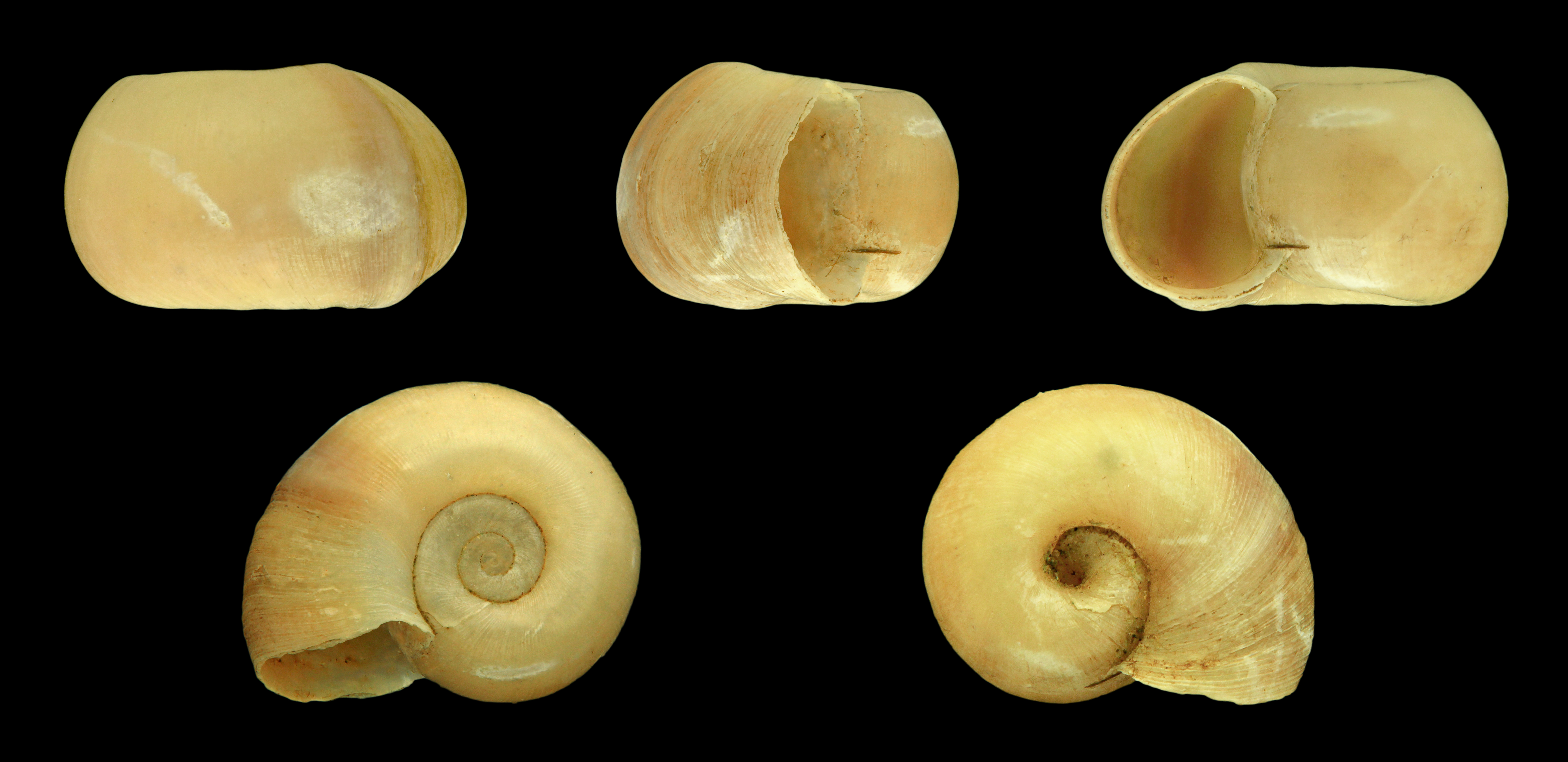 Diameter 0.8 cm; Originating from the Lombok River, Bohol, Philippines; Shell of own collection, therefore not geocoded.